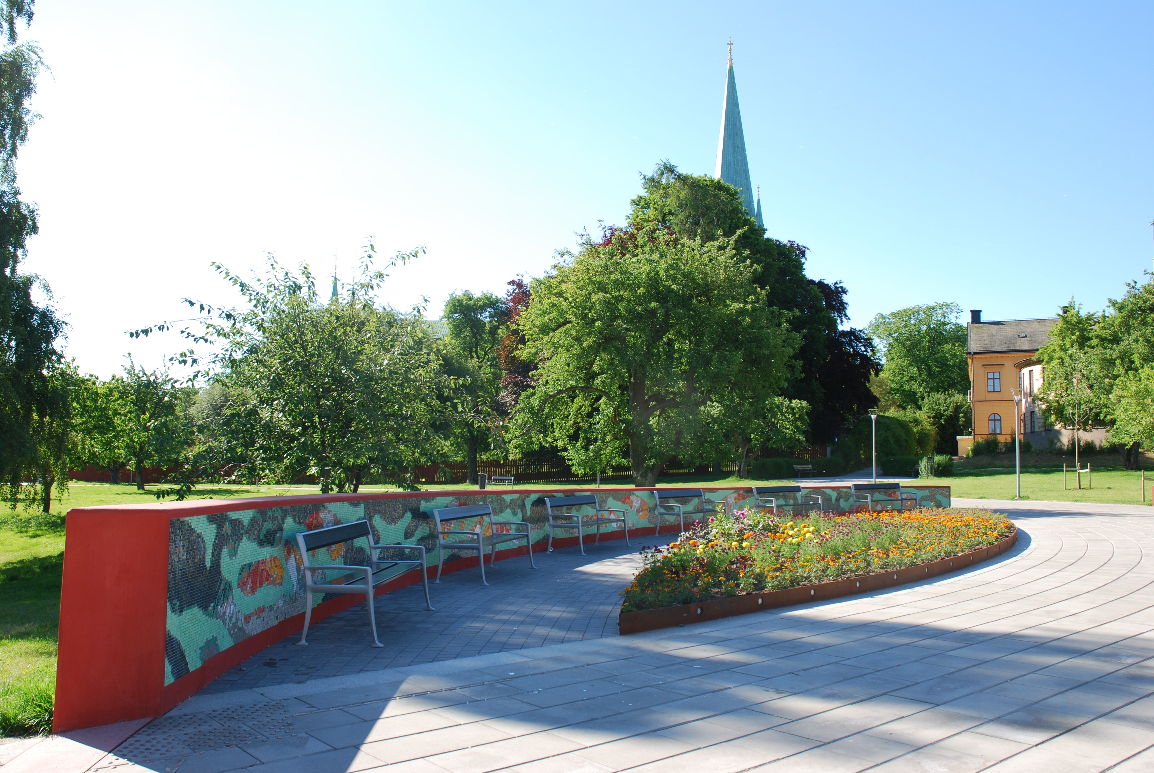 Backa Carin Ivarsdotter´s Karp e Diem (2008-09), Biskopsparken, Linköping, Sweden